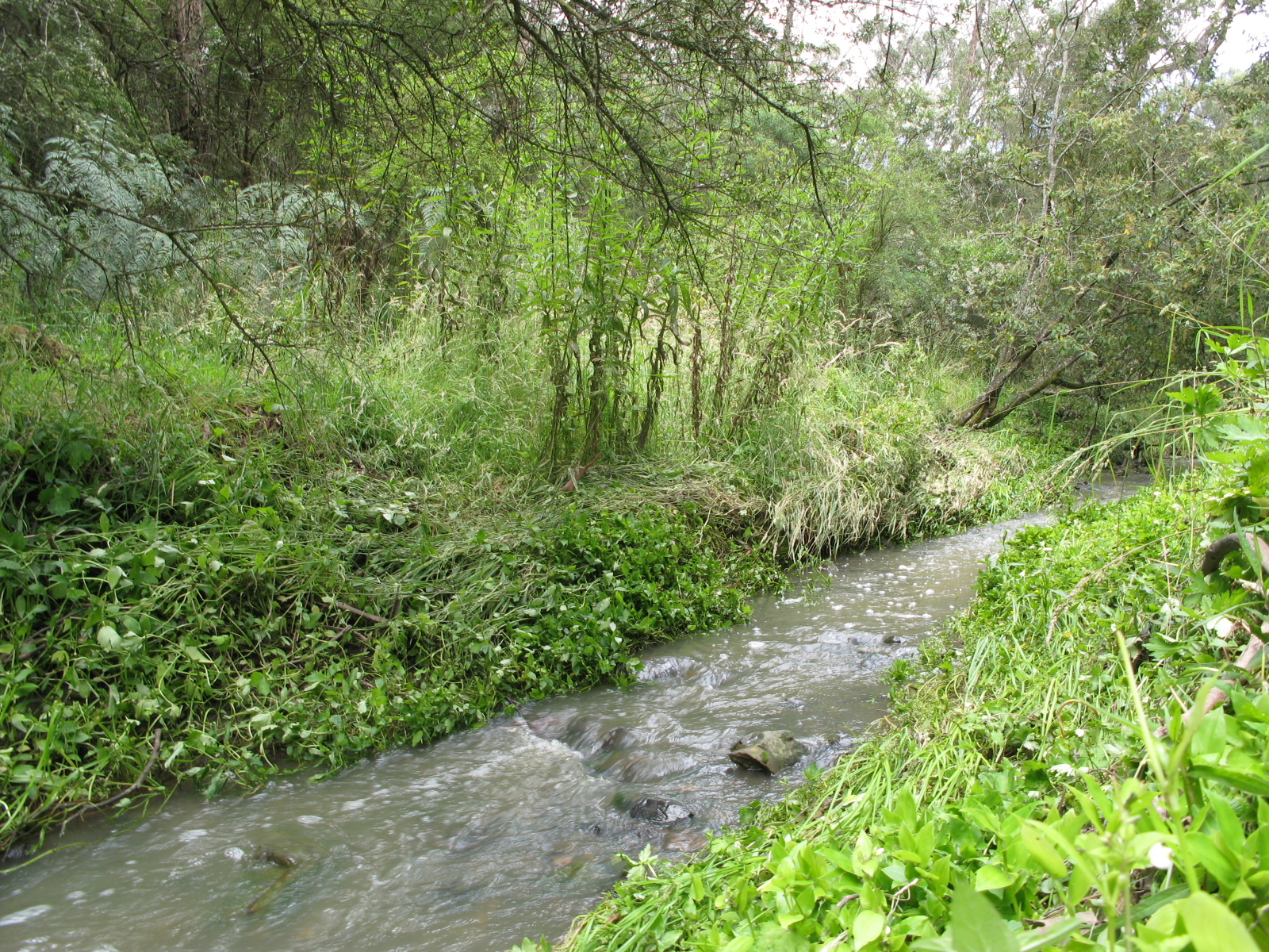 Andersons Creek, through the Warrandyte State Park. Photo taken by myself in December 2008.